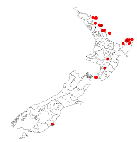 Carmichaelia williamsii occurrence data from Australasian Virtual Herbarium downloaded 2 December 2019 using